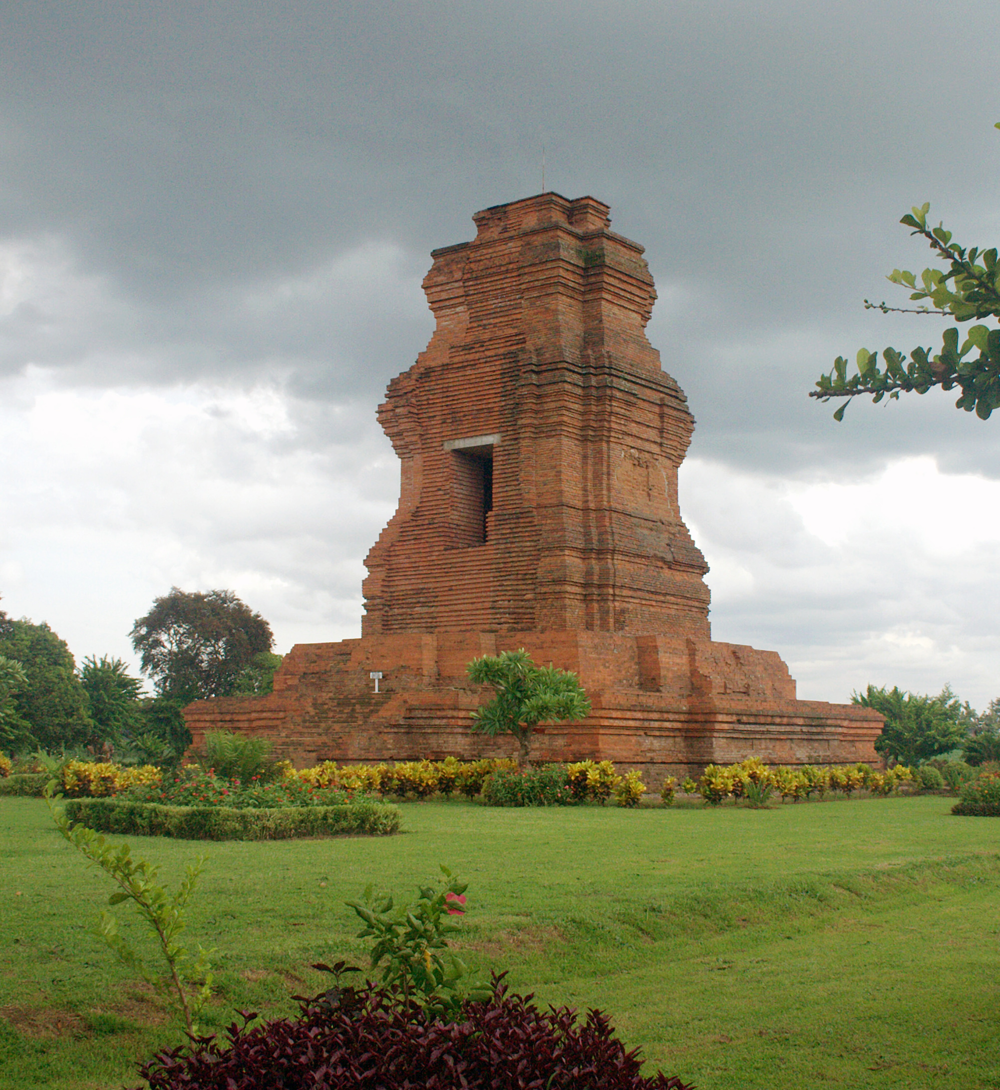 Brahu temple at Trowulan archaeological site, East Java. The tall red bricks temple is dated from Majapahit period circa 13th to 15th century.